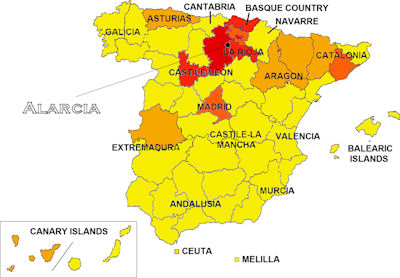 Coloured map by per cent of the surname Alarcia It was made using the image Coloured map of the autonomous communities of Spain, that was made using the image Provinces of Spain (Blank map).png. Image and the text above was copied from Image:Ccaa-spain.png